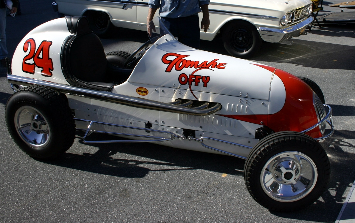 A Tomshe Offenhauser midget car